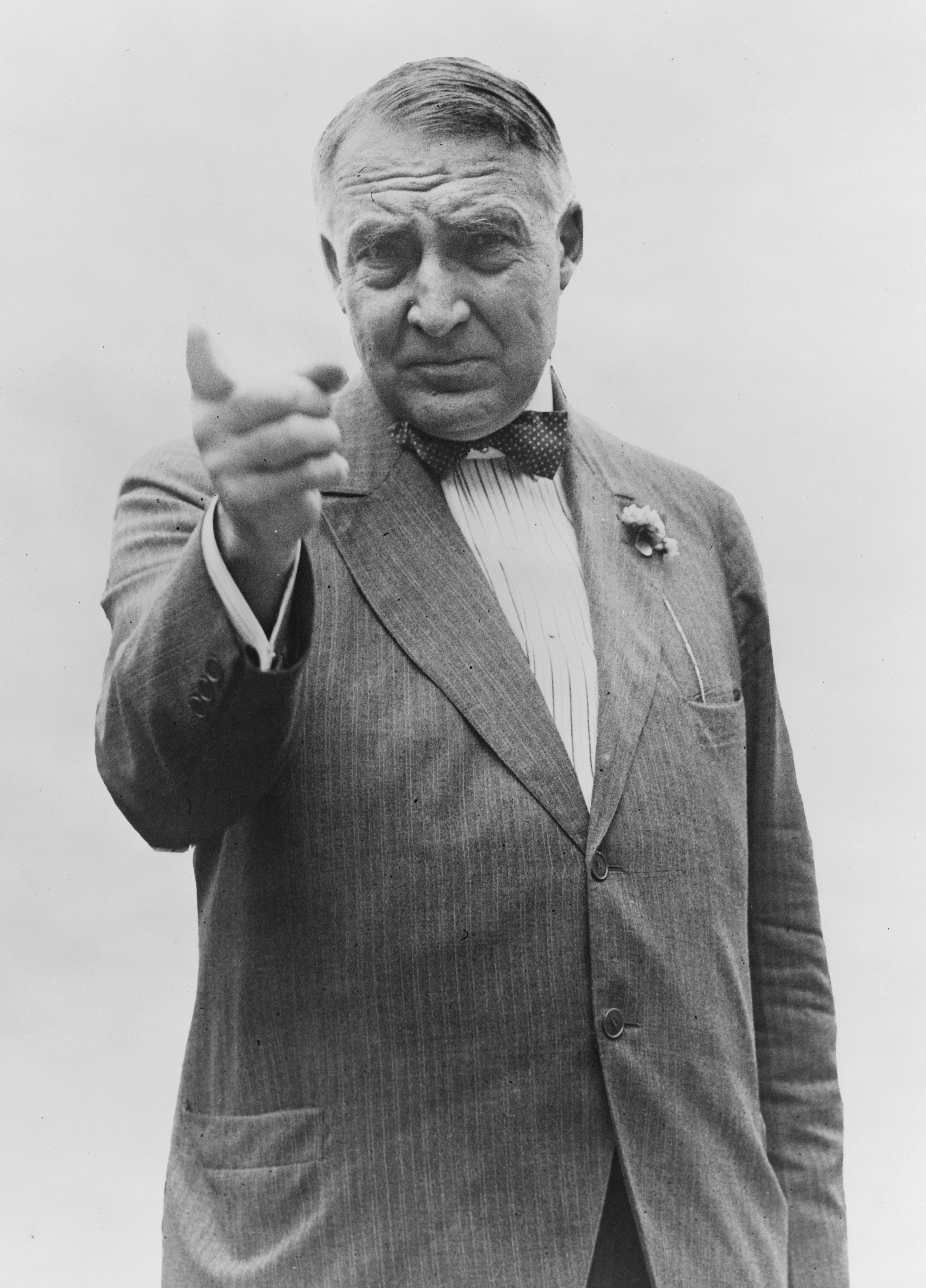 Warren G. Harding half-length portrait, standing, facing front, gesturing with right hand, index finger extended.